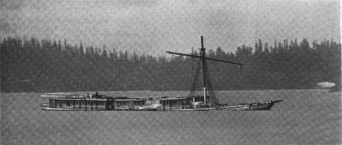 Wreck of the steamship Idaho, likely taken in 1889